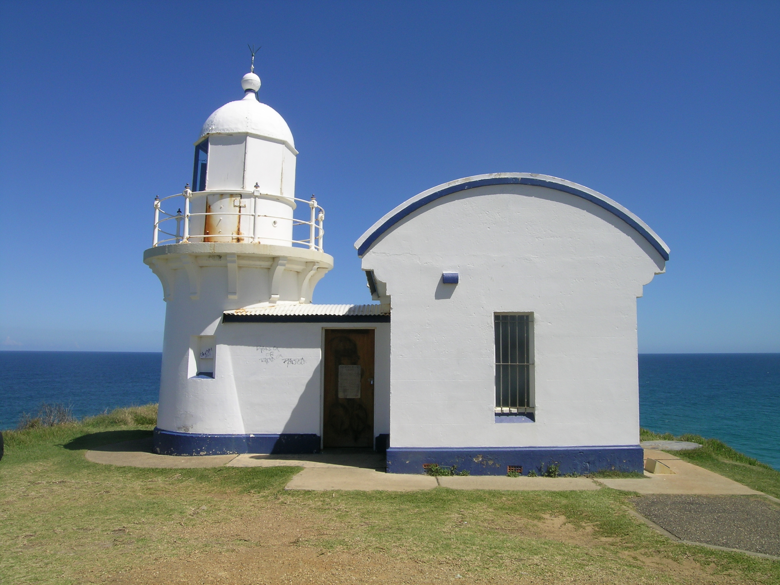 Tacking Point Lighthouse, Port Macquarie, NSW. Tacking Point was named by Matthew Flinders in July 1802. The lighthouse is the third-oldest in the country. It was built in 1879 to warn ships of the rocks near the shore and was converted to automatic operation in 1919.